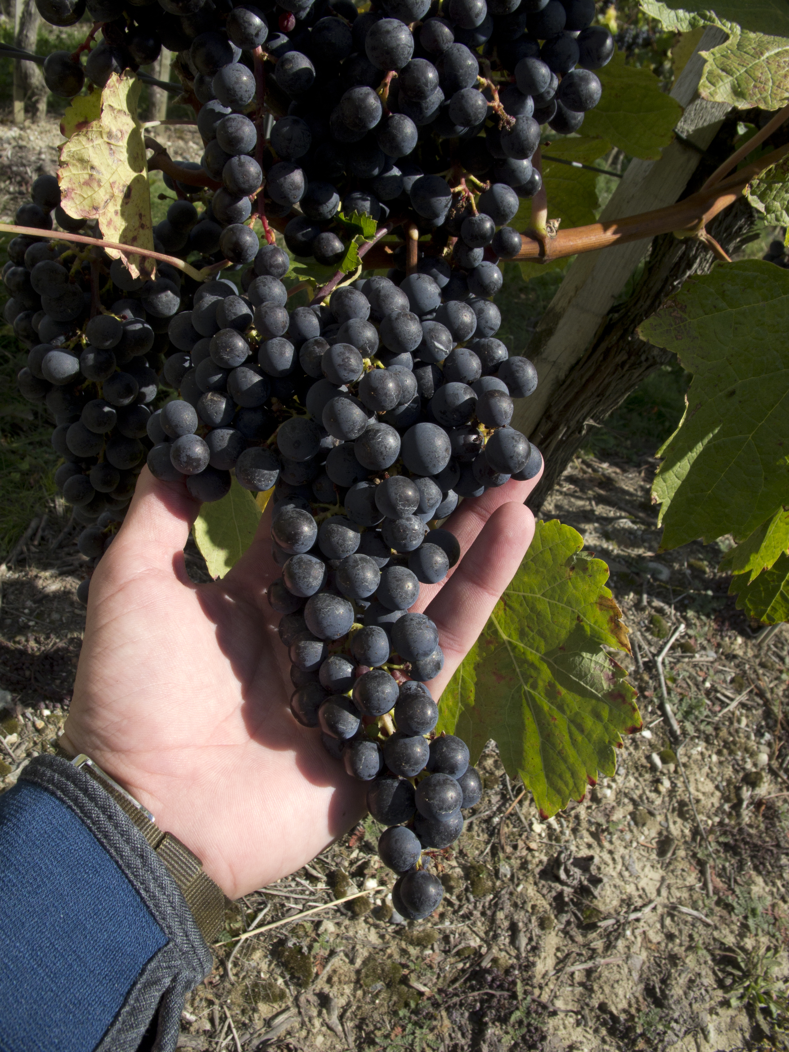 Near the borders of Vufflens-le-Château, Chigny and Monnaz in Vaud, Switzerland